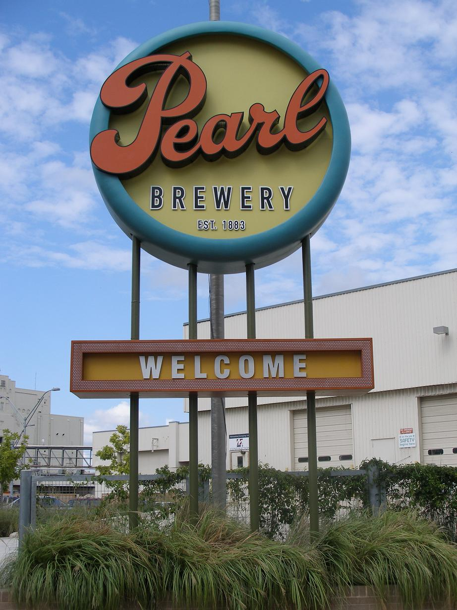 Closeup of the new Pearl Brewery sign. Image taken on 20 July 2006.